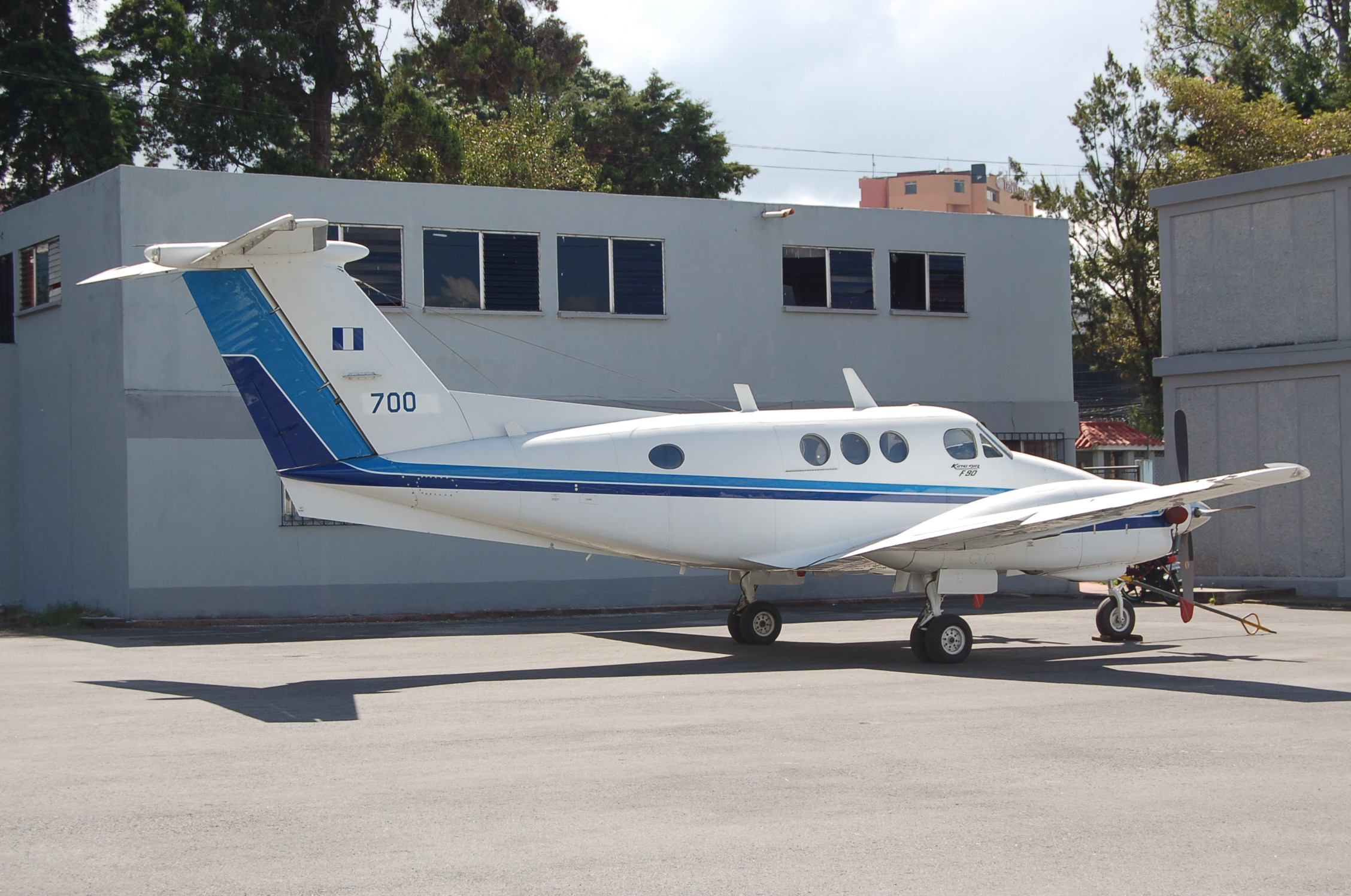 Beech F90 of Guatemalan Air Force at Guatemala City,Guatemala 01/03/11.